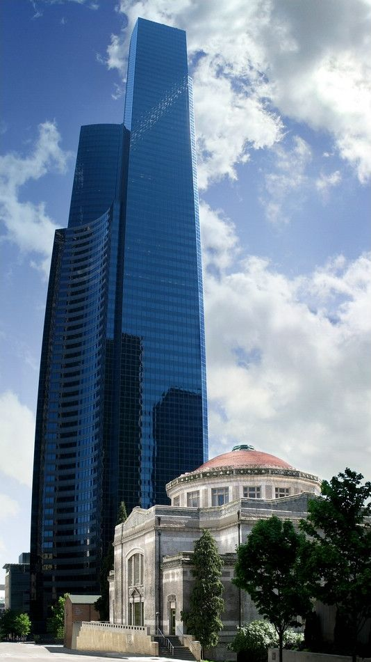 "Columbia Center is the tallest building in Seattle at 295m. This photo is a vertical panorama consiting of 4 shots. The exposure was set at street level and so bright the sky was completely blown-out, so I replaced it with another sky photo. The unusual lighting comes from a shiny building off to the left."